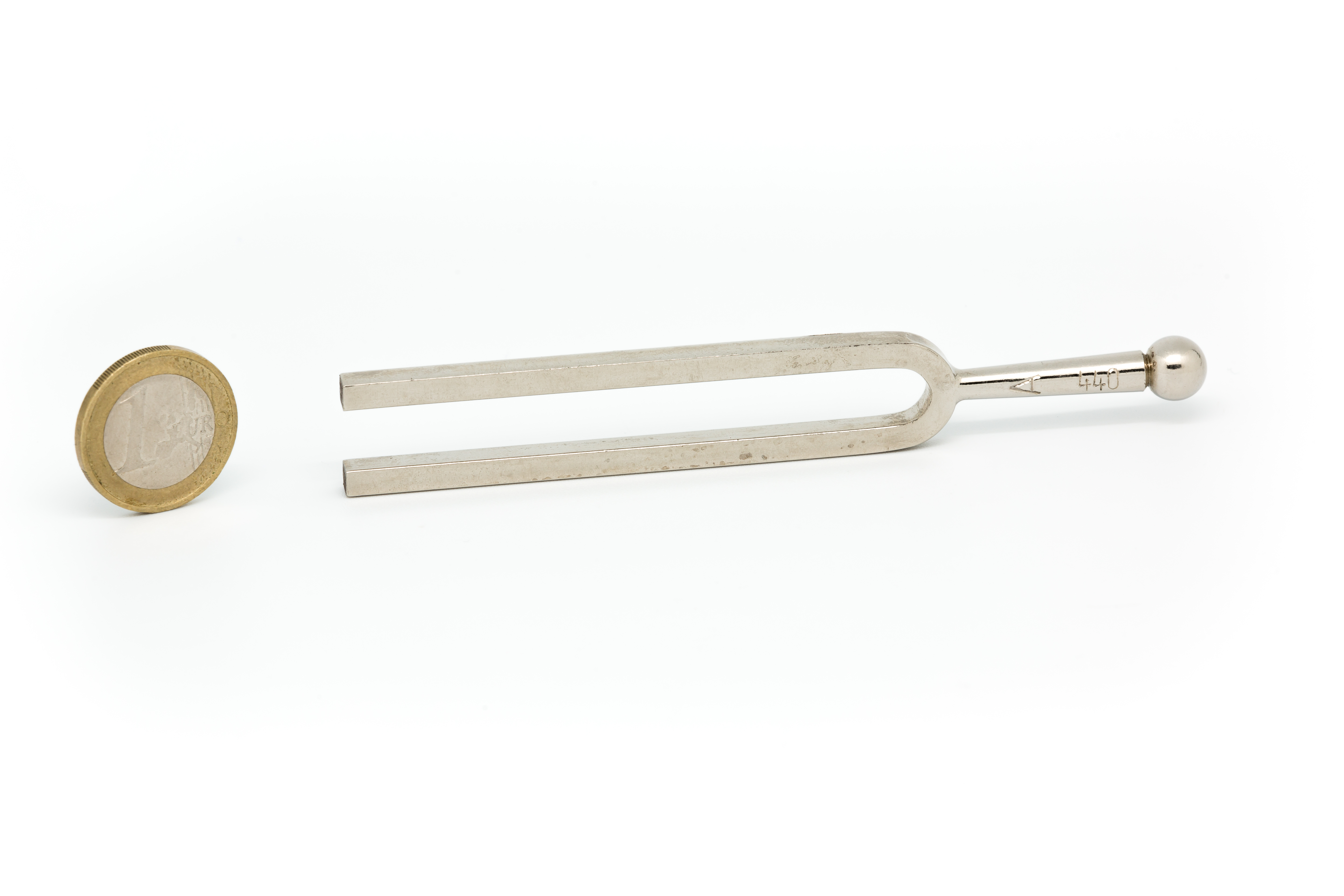 440 Hz (A440) Wittner chromed tuning fork with square branches.